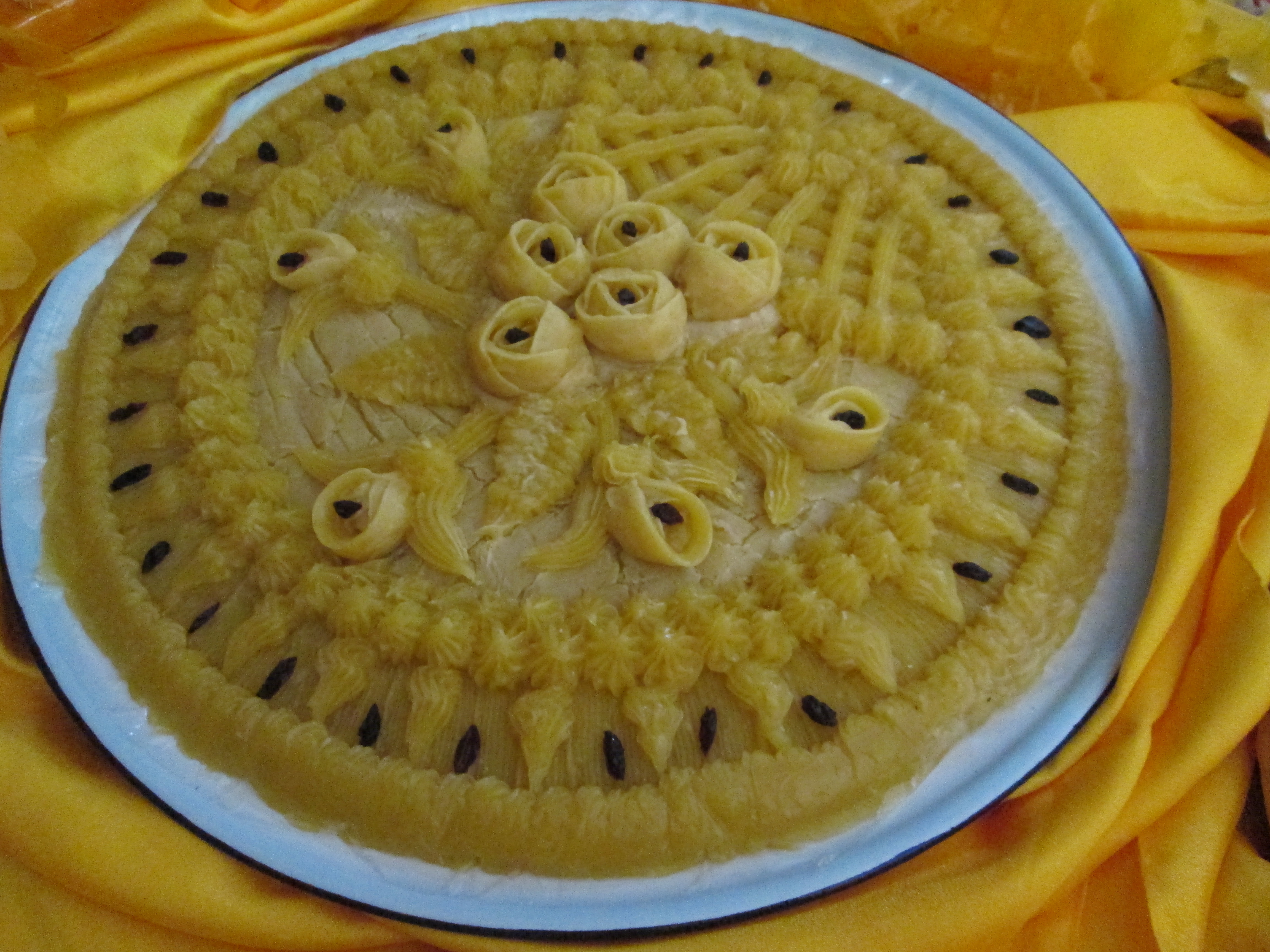 Meuseukat, a kind of Acehnese cakes